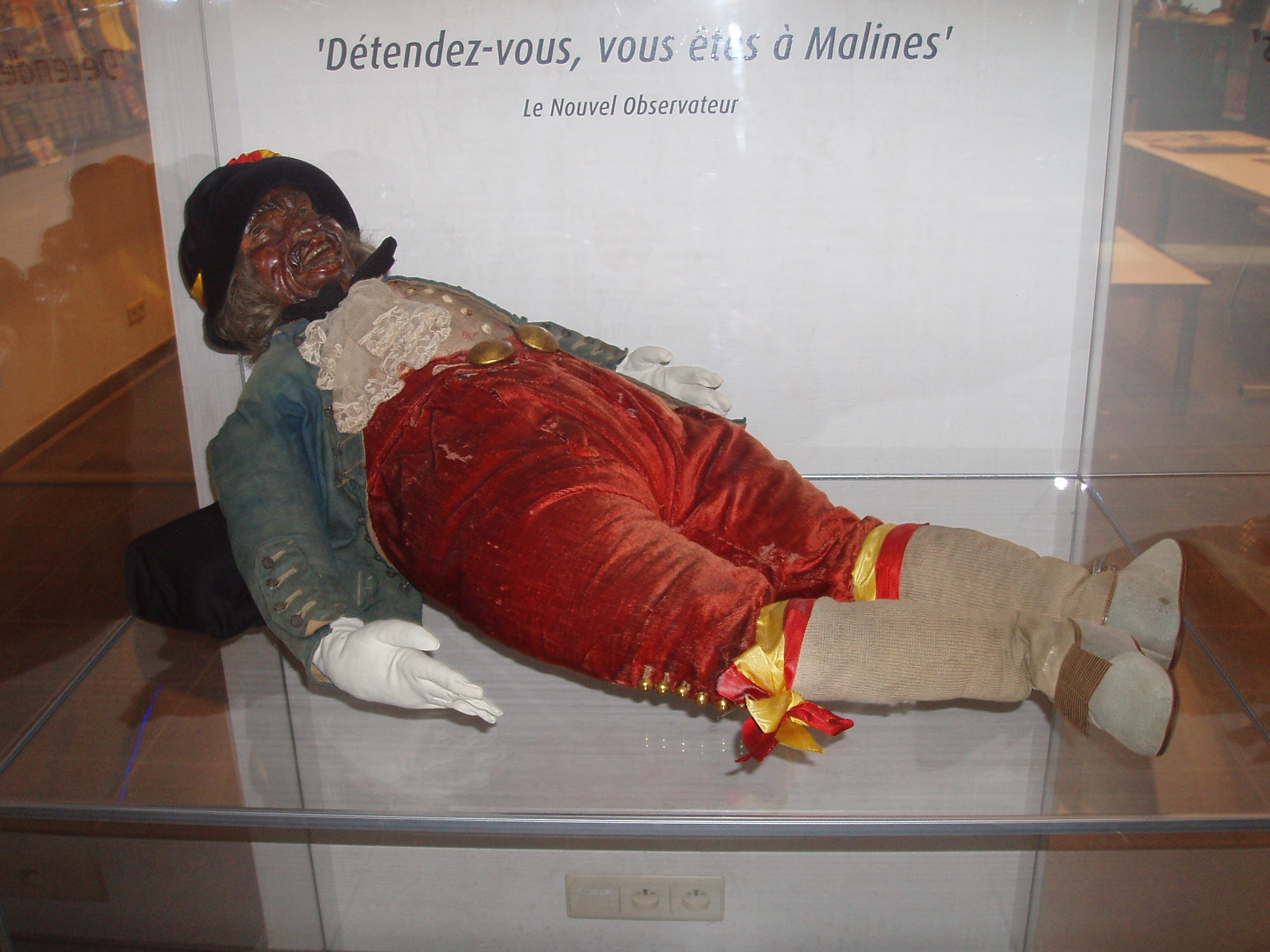 Opsinjoorke originele pop Mechelen